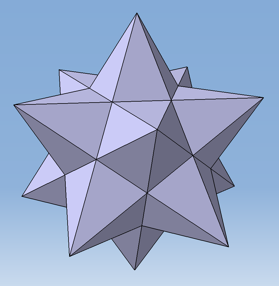 Small stellated dodecahedron